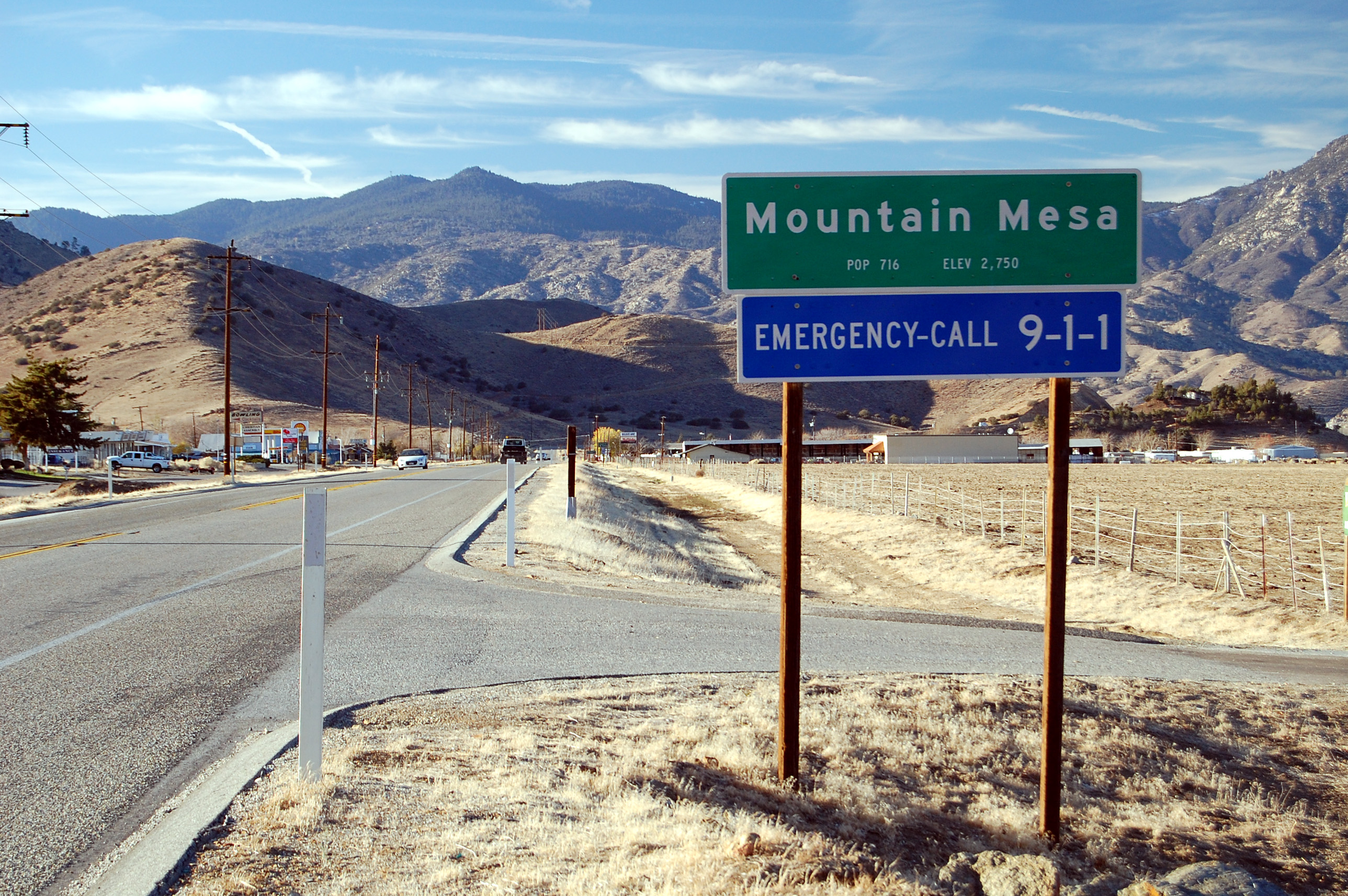 Sign for Mountain Mesa, a census-designated town in Kern County, eastern California. Located in the Lake Isabella area of the Southern Sierra Nevada. CalTrans G9-2 guide sign looking westbound on SR 178 at the eastern extent of Mountain Mesa. About this image Was captured using film or digital camera equipment. May lack artistic merit but documents the existence of the subject(s). May have had elements including colors, composition, gamma, exposure, or size adjusted using camera-, lens-, scanner-settings or by applying image editing software. May have had aberrations, flare, or reflections removed in order that the subject of the image is more clearly visible. Is intended to be representative of the view of the subject that would be perceived by a human eye.